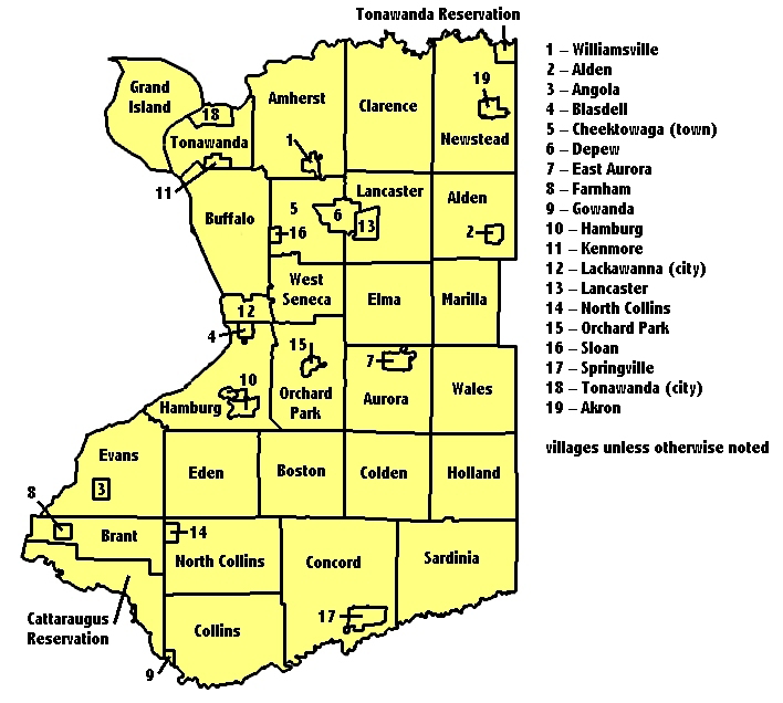 User:Vesperholly added text labels to Erie County map image created by User:Osgoodelawyer.